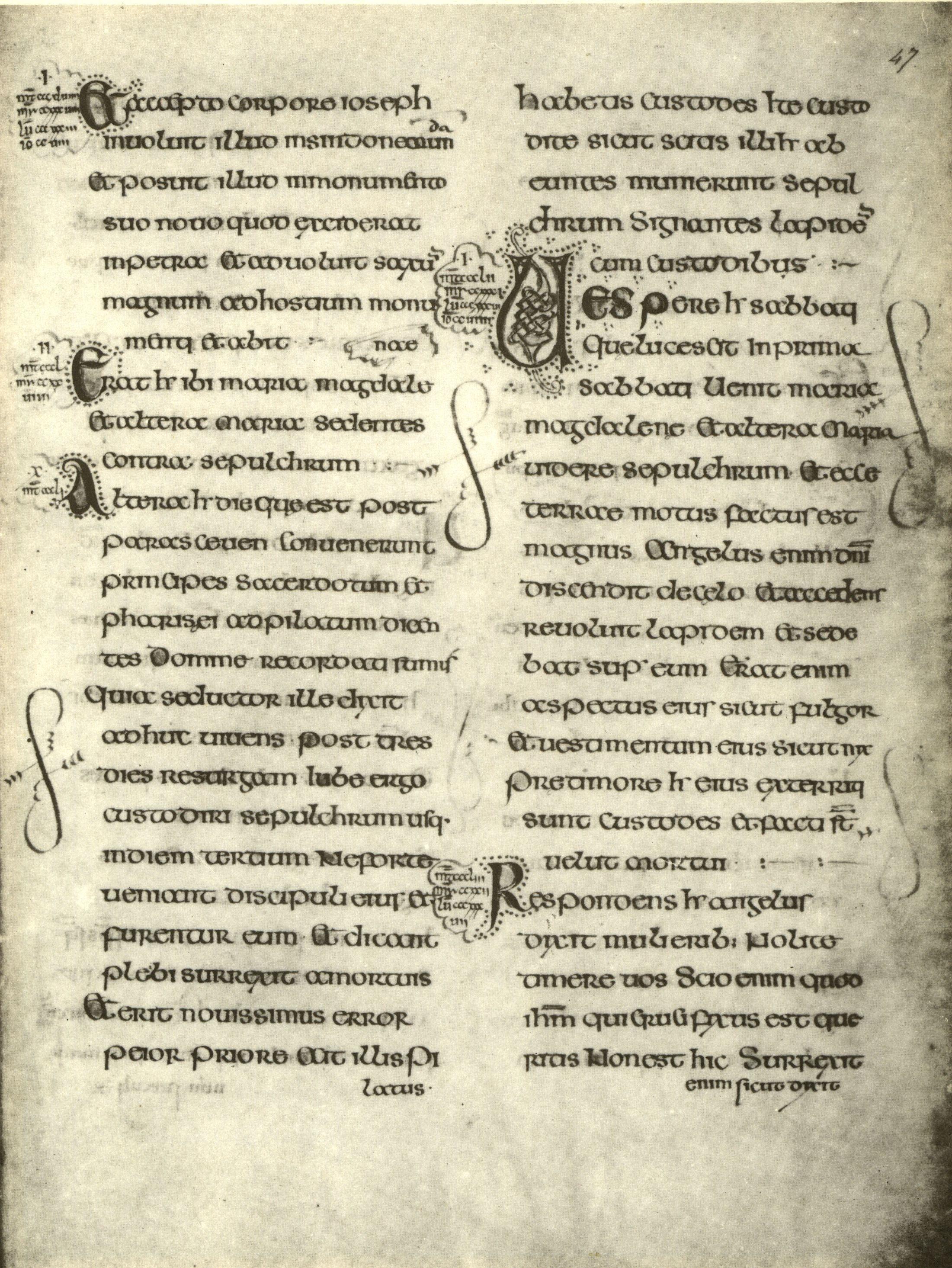 Anglo-Saxon Script. Manuscript Vatican, Biblioteca Apostolica Vaticana, Barb. Lat. 570, fol. 47r (Gospel of Matthew).